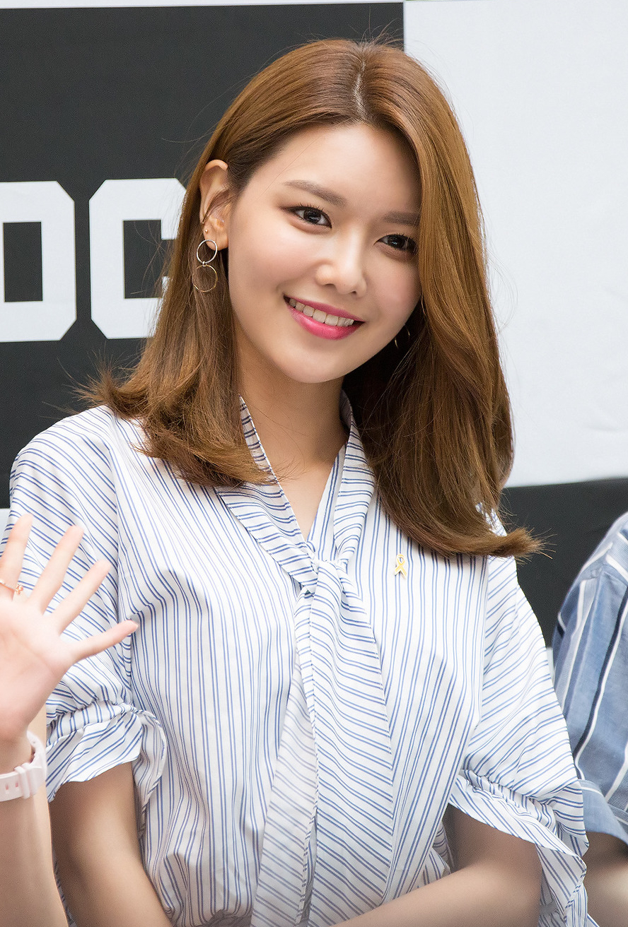 Choi Soo-young at Starfield Hanam G-SHOCK fan signing on April 16, 2017.